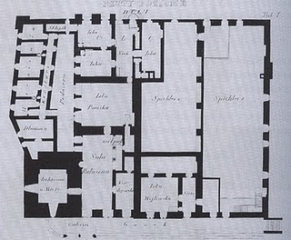 Constraction Plan of Town Hall of Cracow in 1802